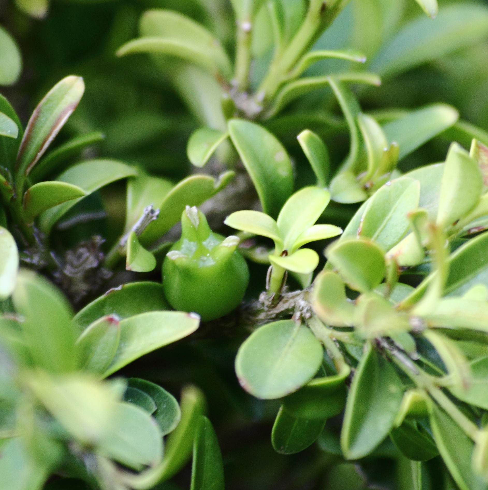 Fruit on a small dwarf boxwood plant (Buxus microphylla ' Hohman's Dwarf')